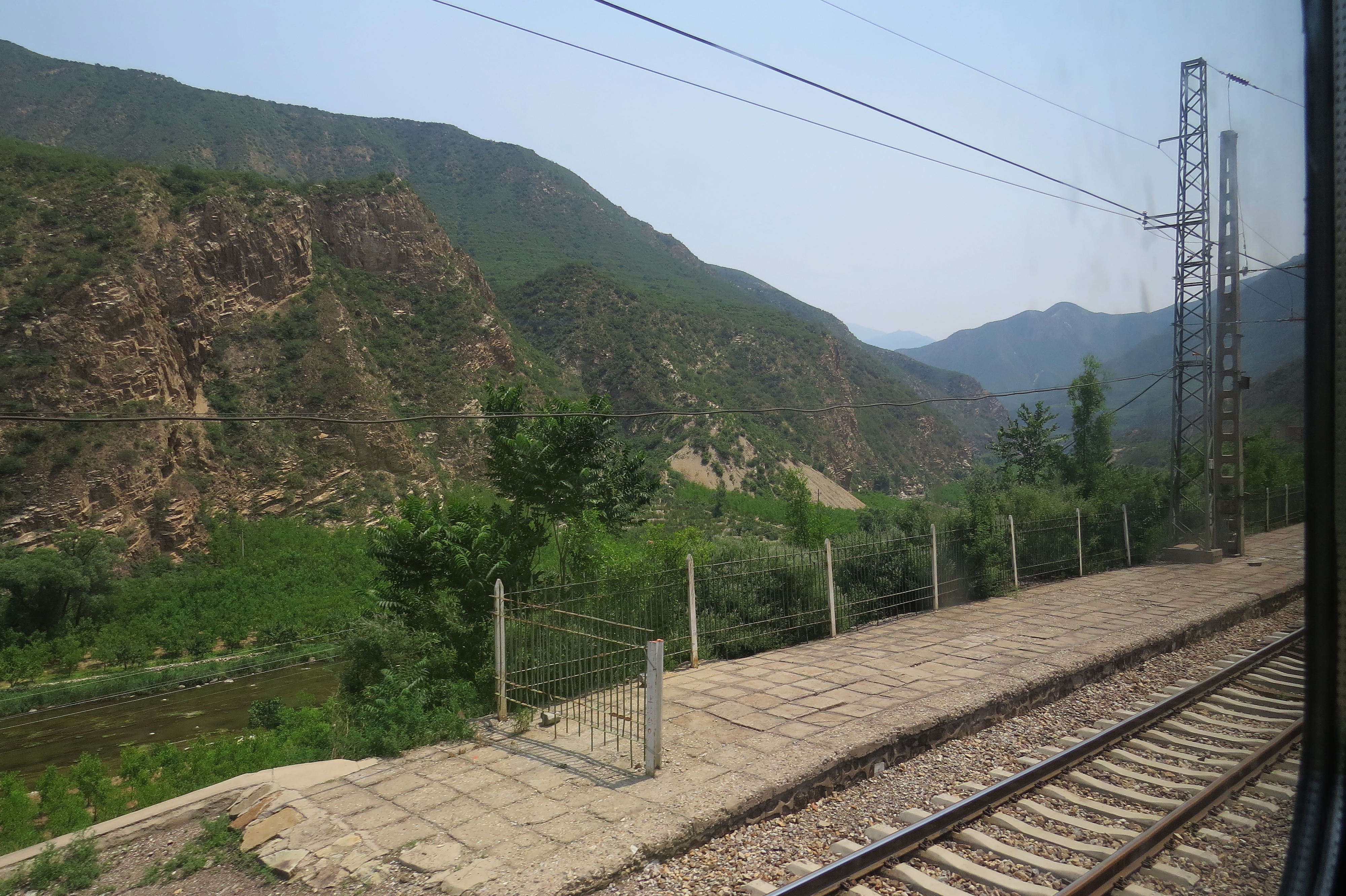 Along the Yongding River.